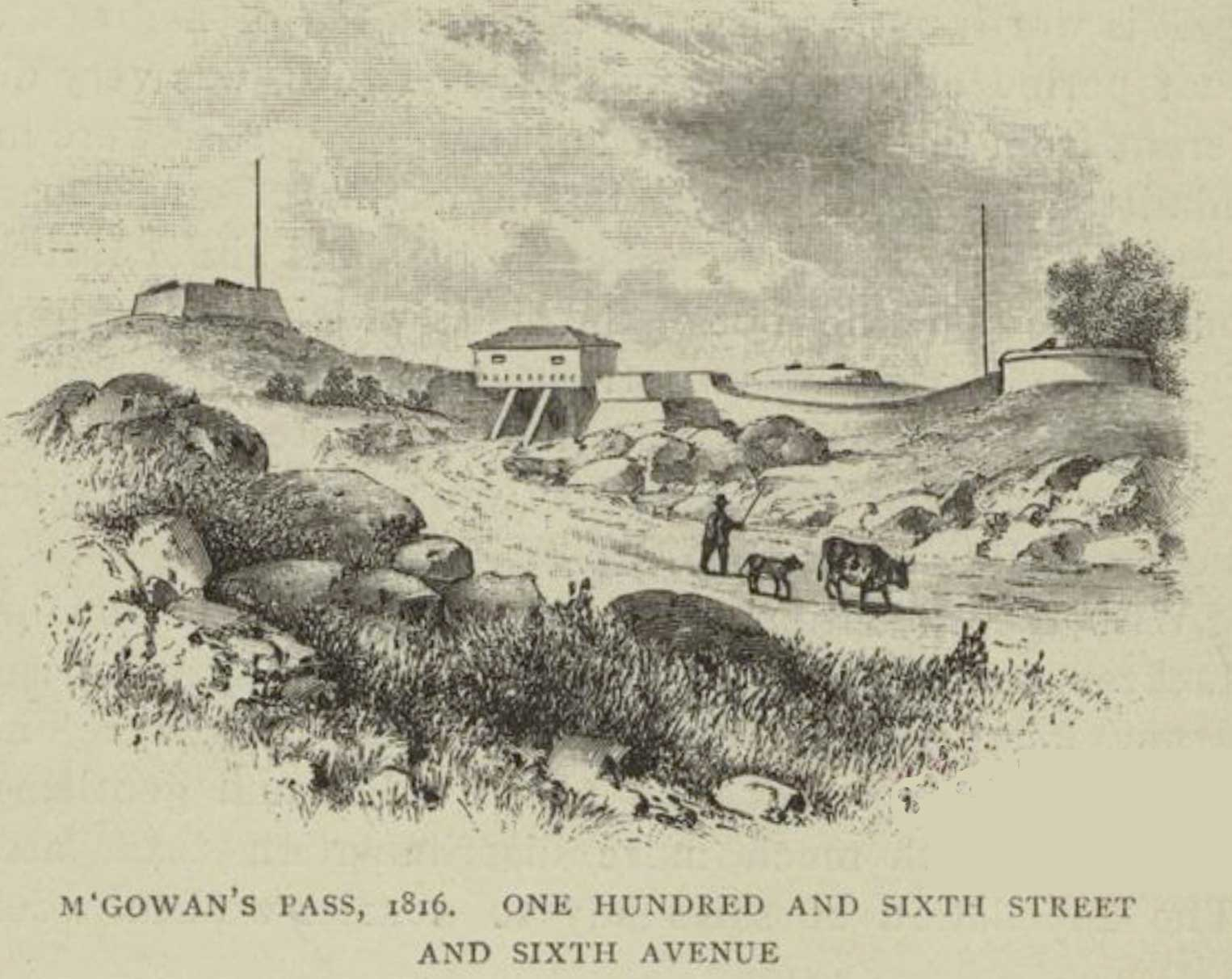 McGowan's Pass in 1816, facing southwest. Fort Clinton, Fort Fish, and Gatehouse with fortifications on either side.